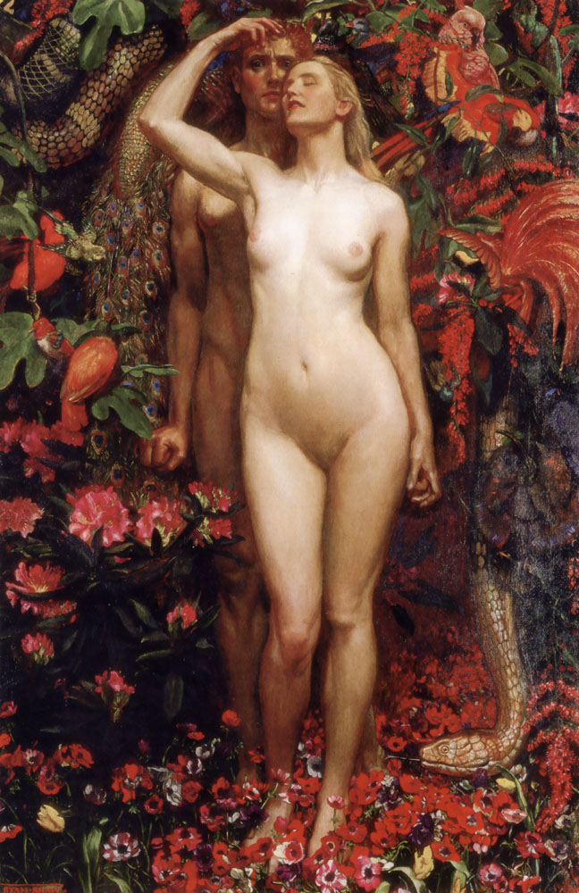 Eve, Adam, and the serpent in the Garden of Eden